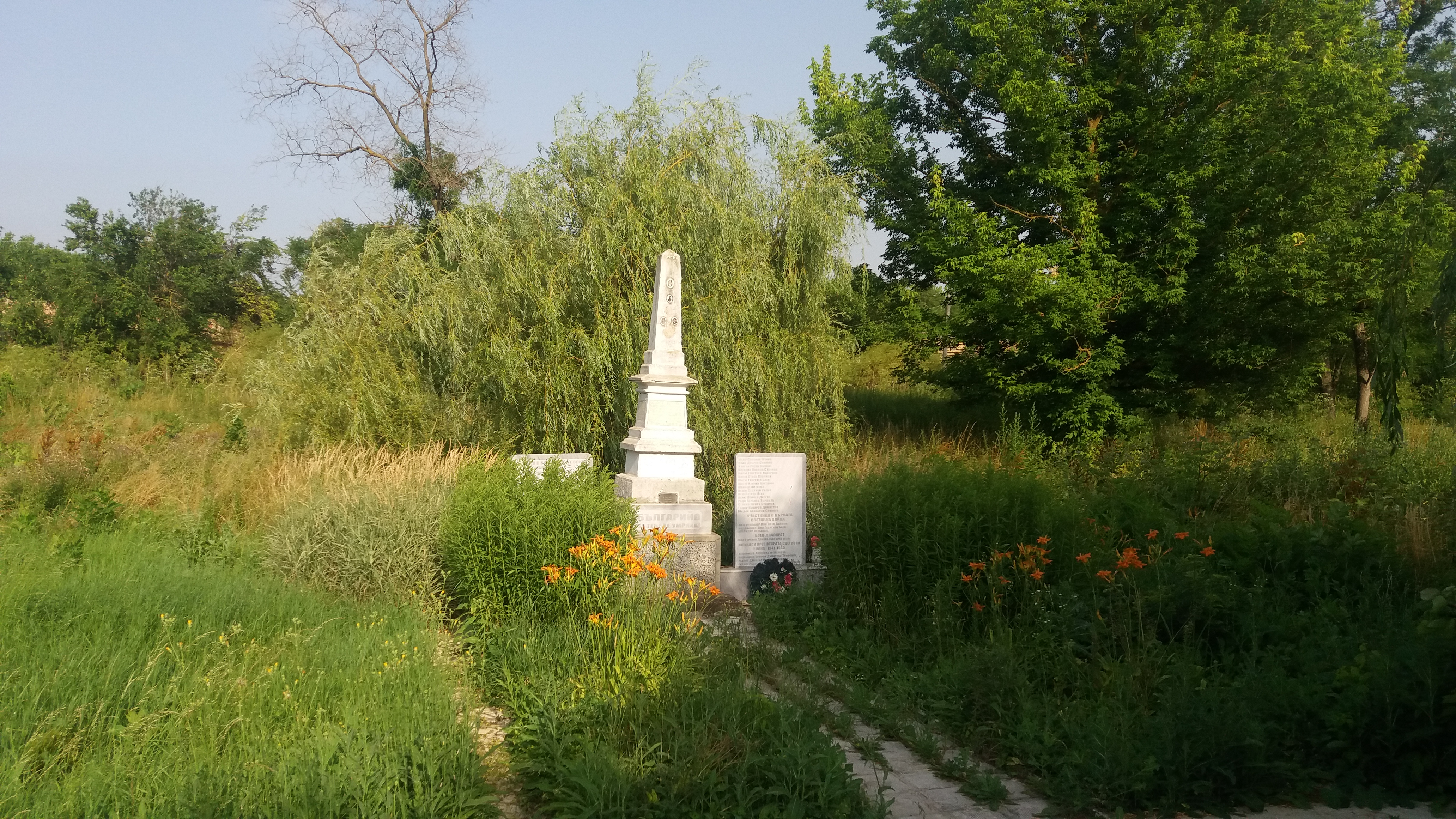 Wa memorial in the village of Shtipsko near Varna